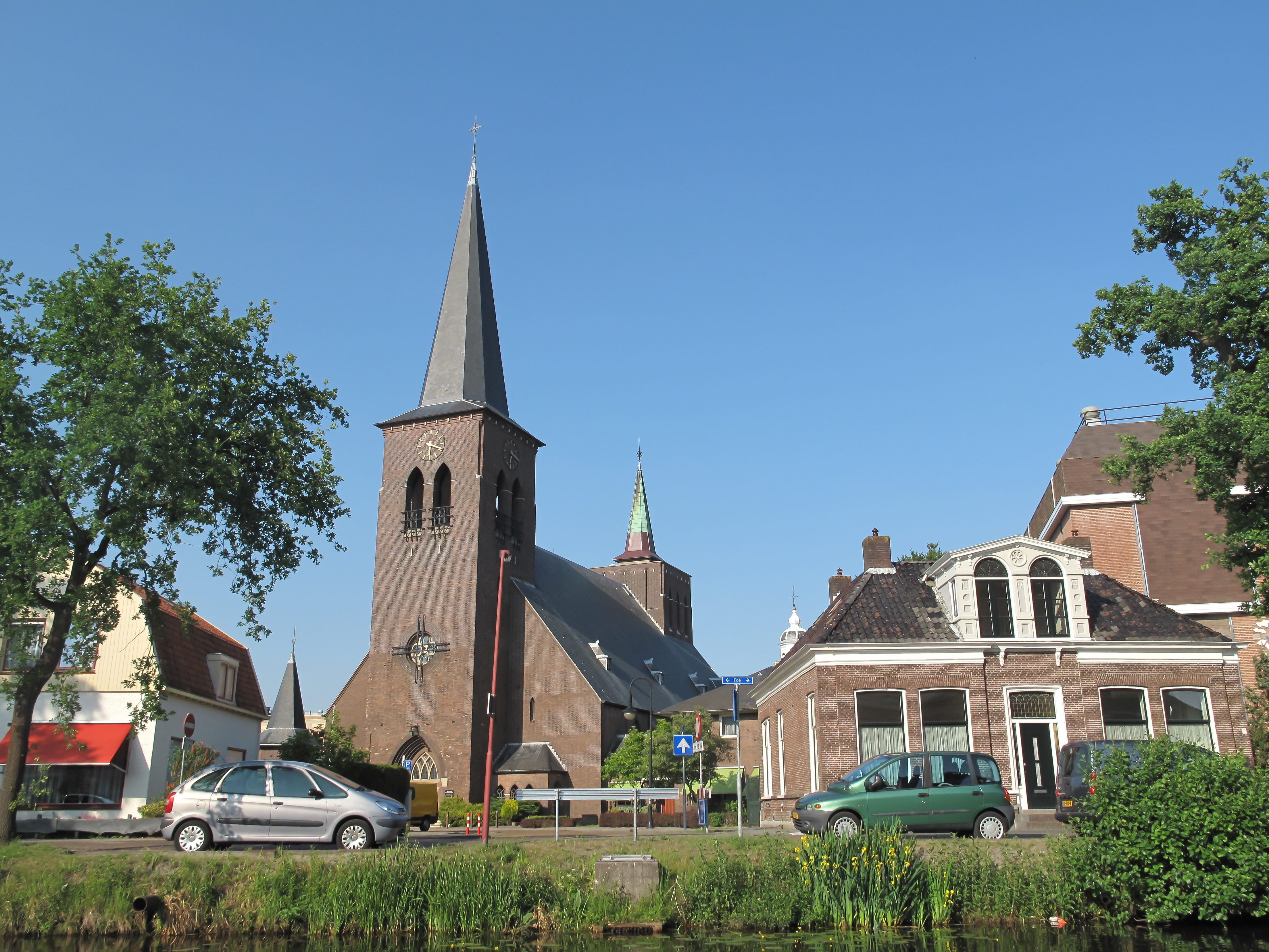 Heerenveen, church in the street